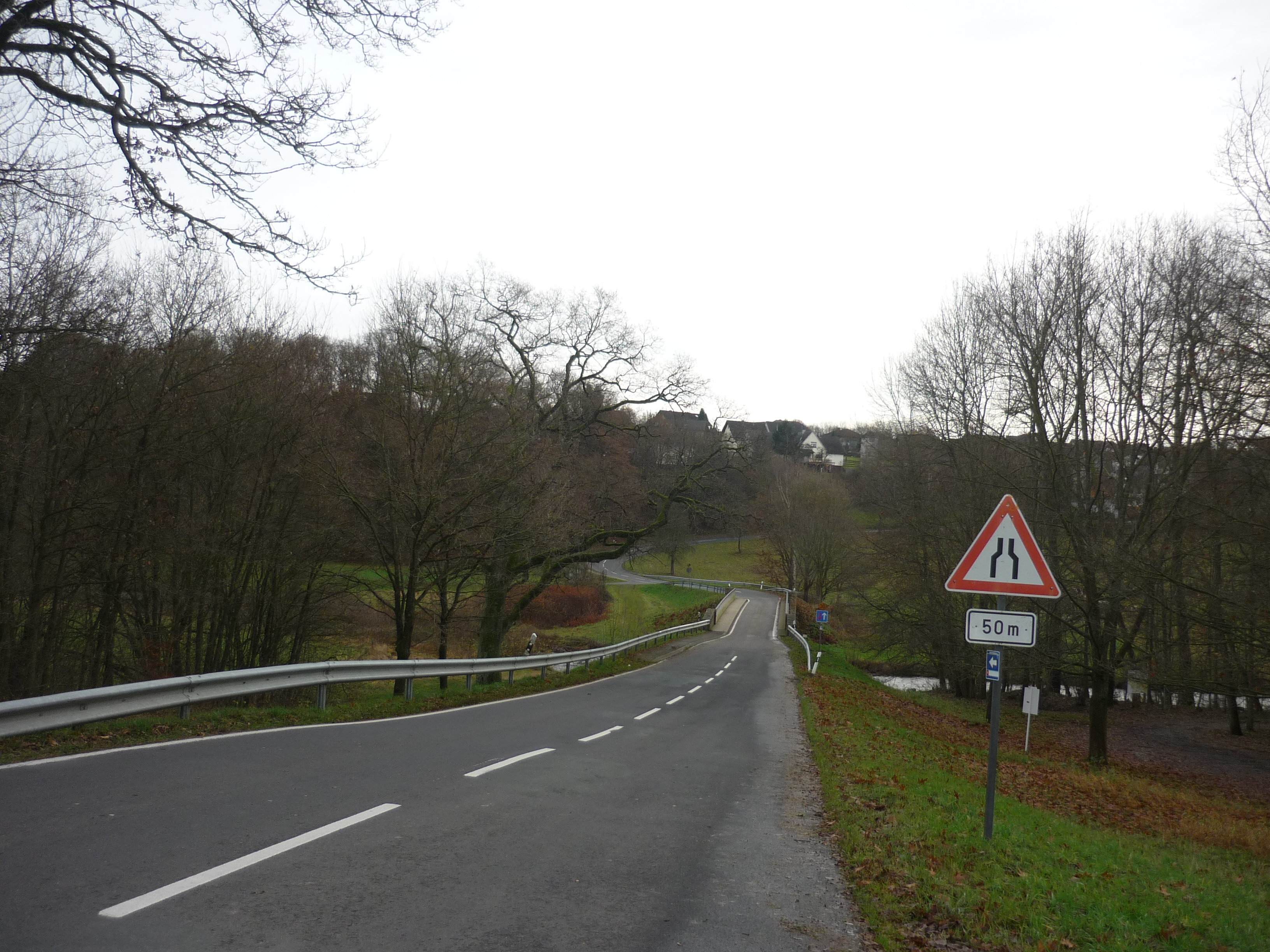 heimborn and nister bridge at the nister (westerwald)